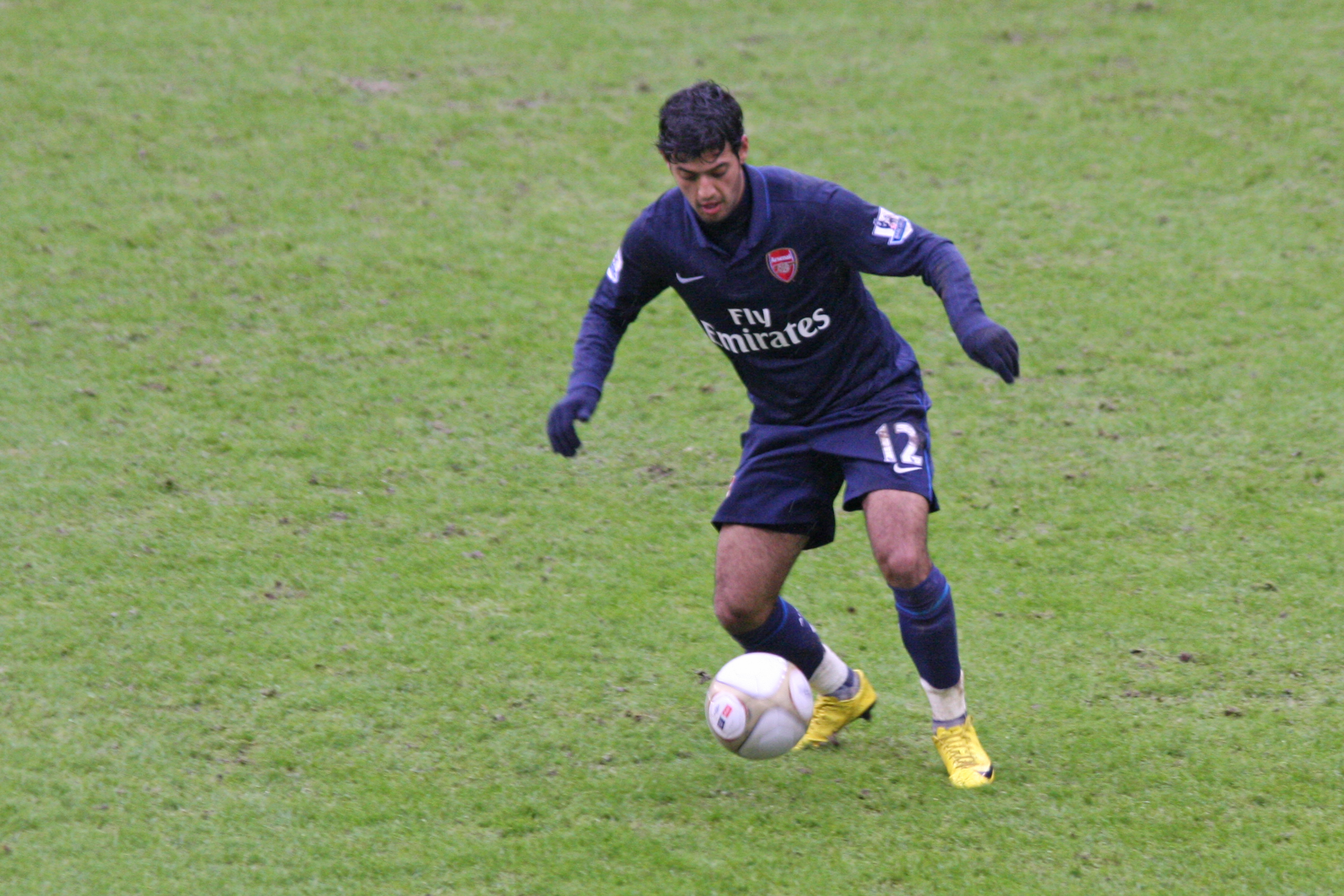 Stoke City FC V Arsenal 62